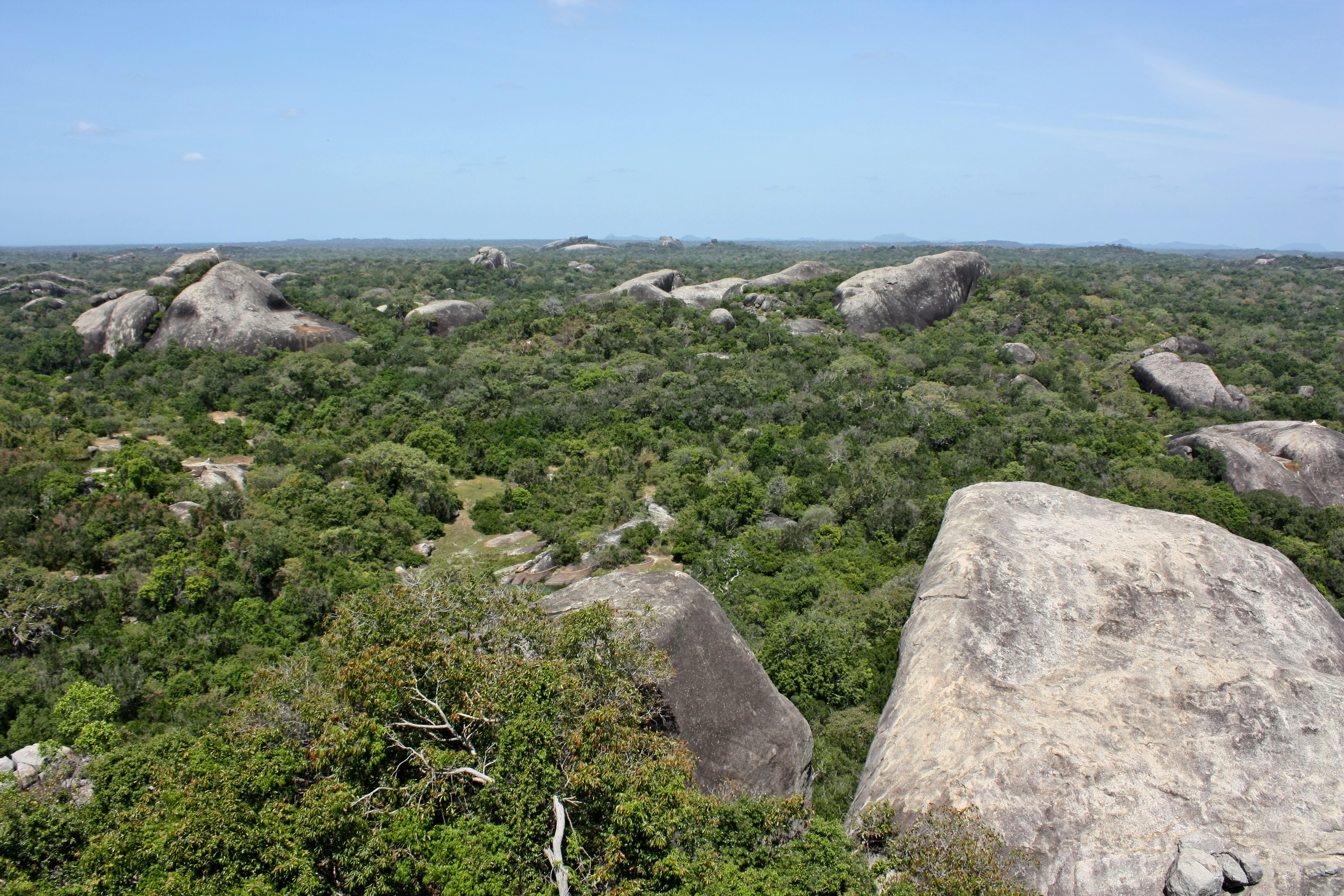 Kumana National Park (Kudumbigala Sanctuary), near Kudumbigala monastery complex